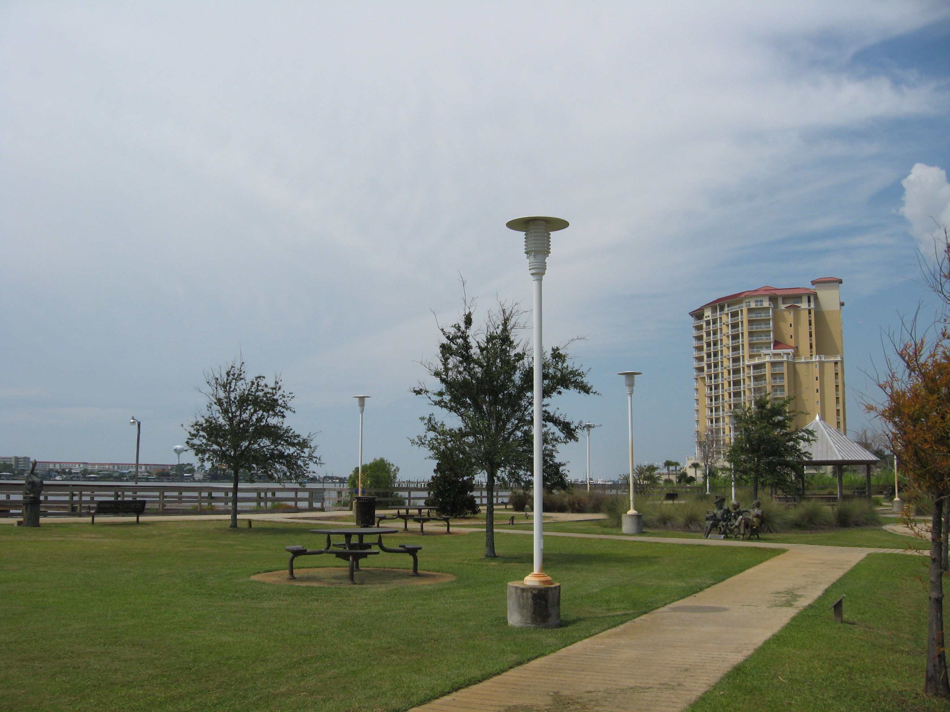 Picture taken in Sound Park in Fort Walton Beach, Florida.